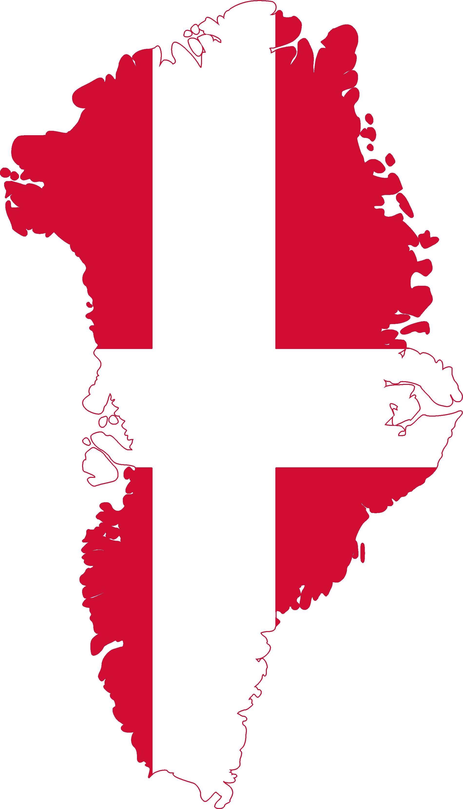 Flag Map of Greenland (Denmark)